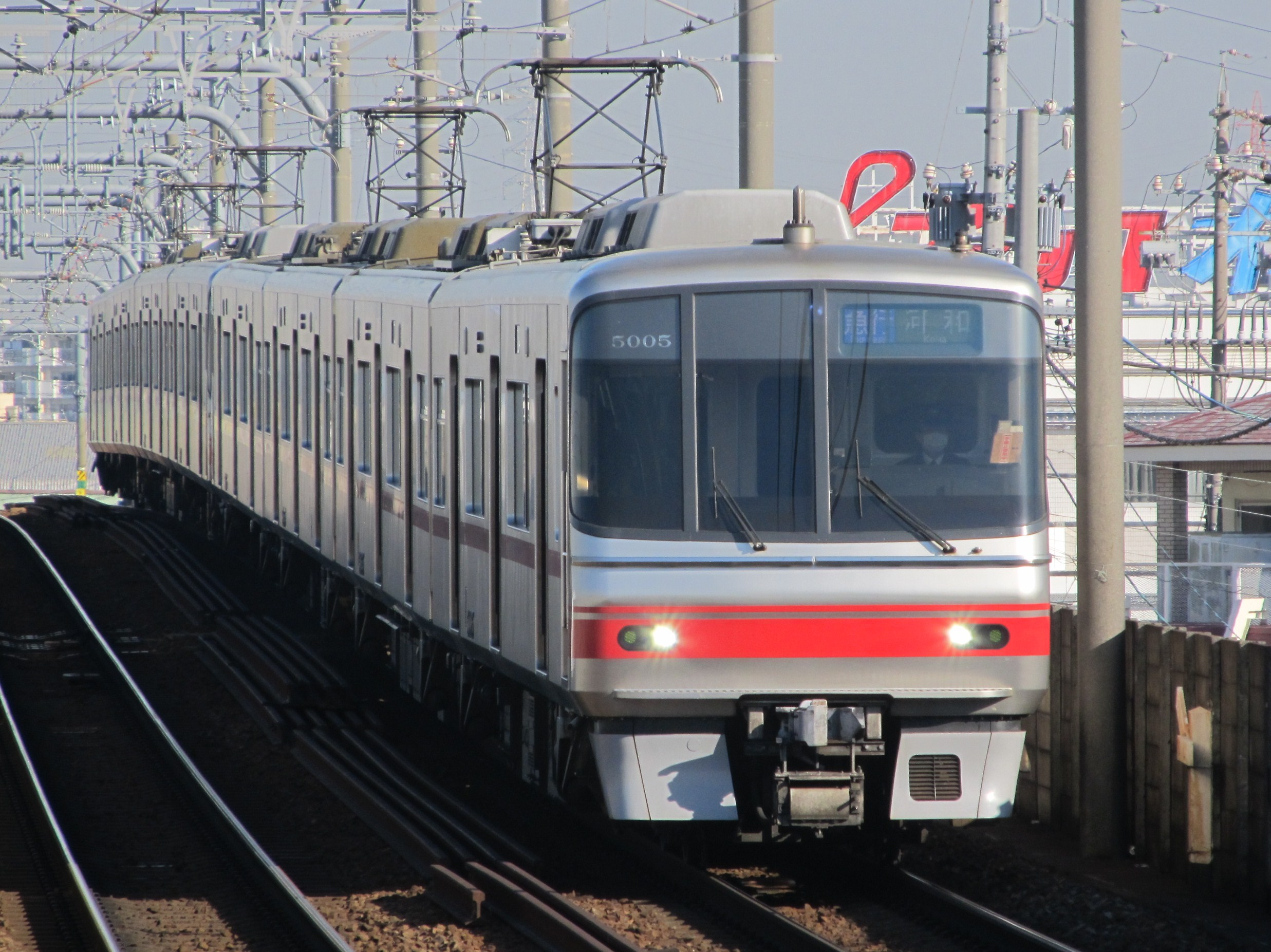 Meitetsu 5000 series. Express bound for Kōwa.